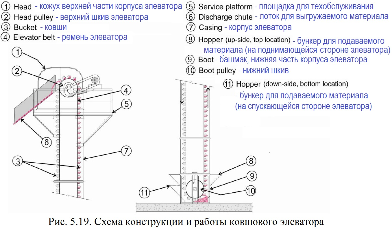 Figure 5.19. Depiction of a bucket elevator